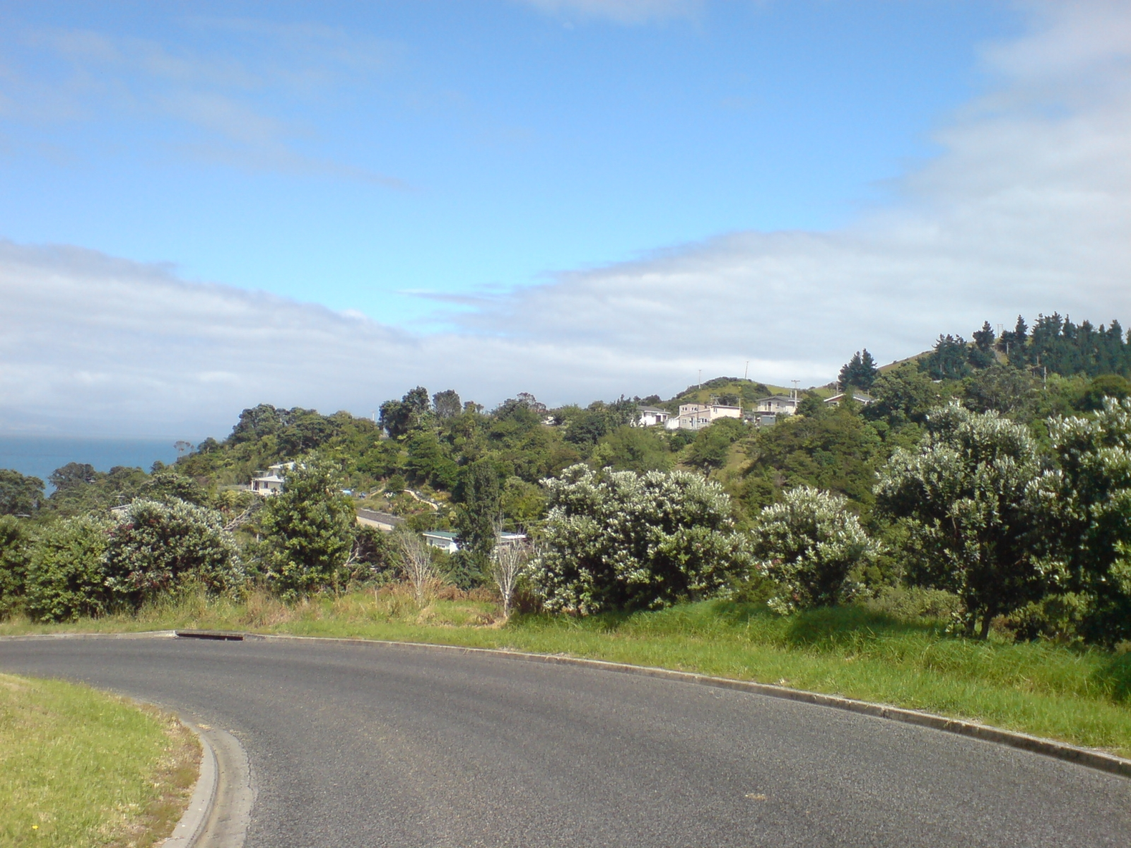 Te Mata, a small village on the western side of the Coromandel Peninsula in New Zealand. Seen from the southern side of the valley northwards, where the main habitation area is.